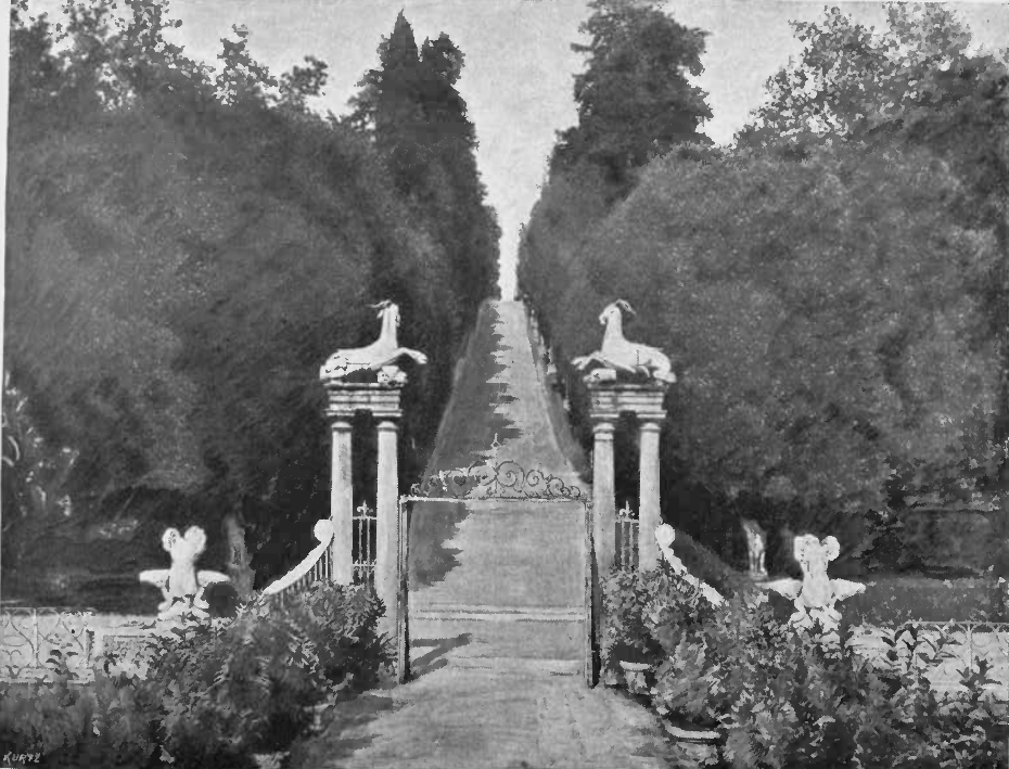 Gardens Boboli, gate, 1893.